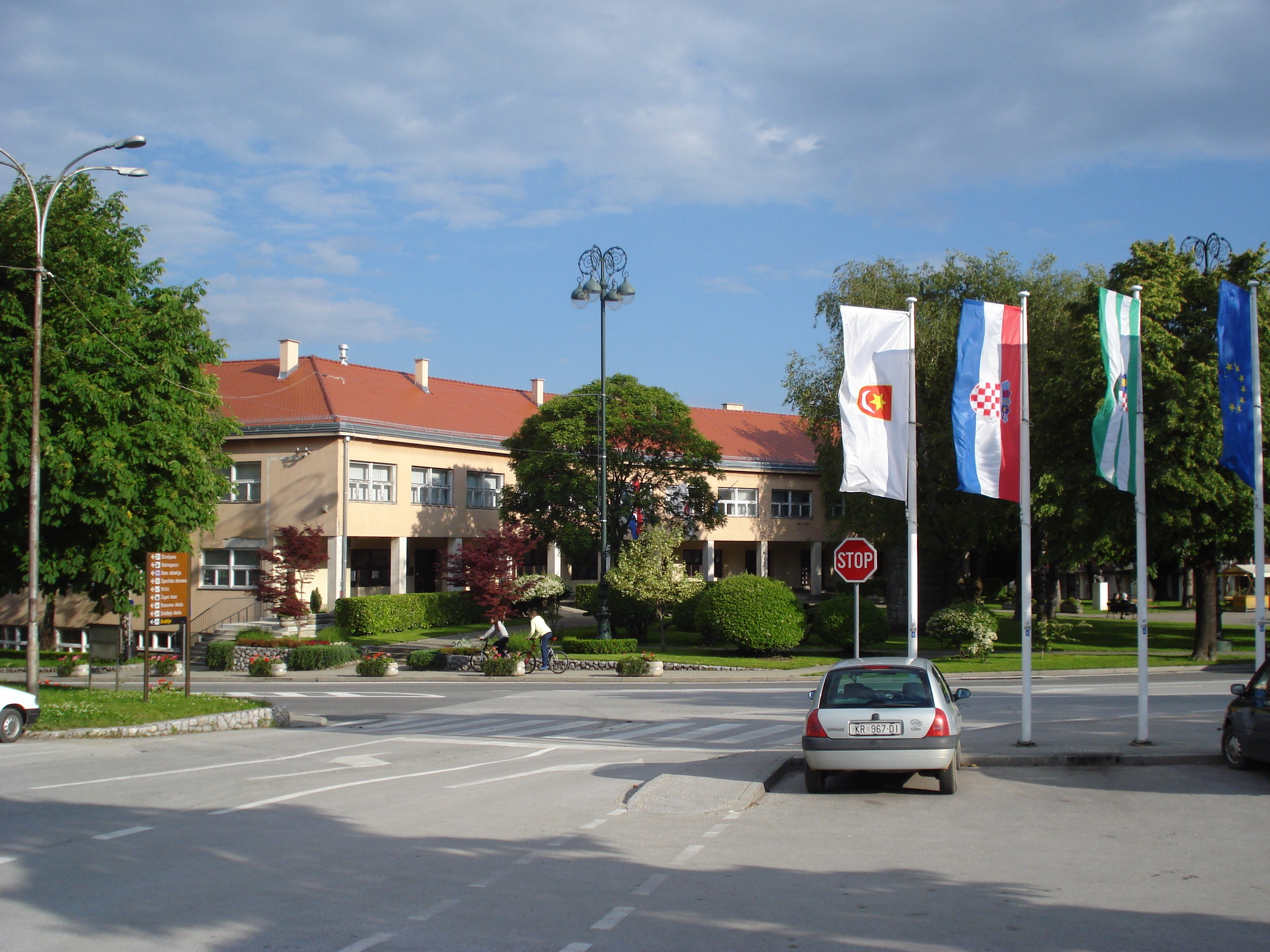 The Town of Sveti Ivan Zelina, Croatia - center.1